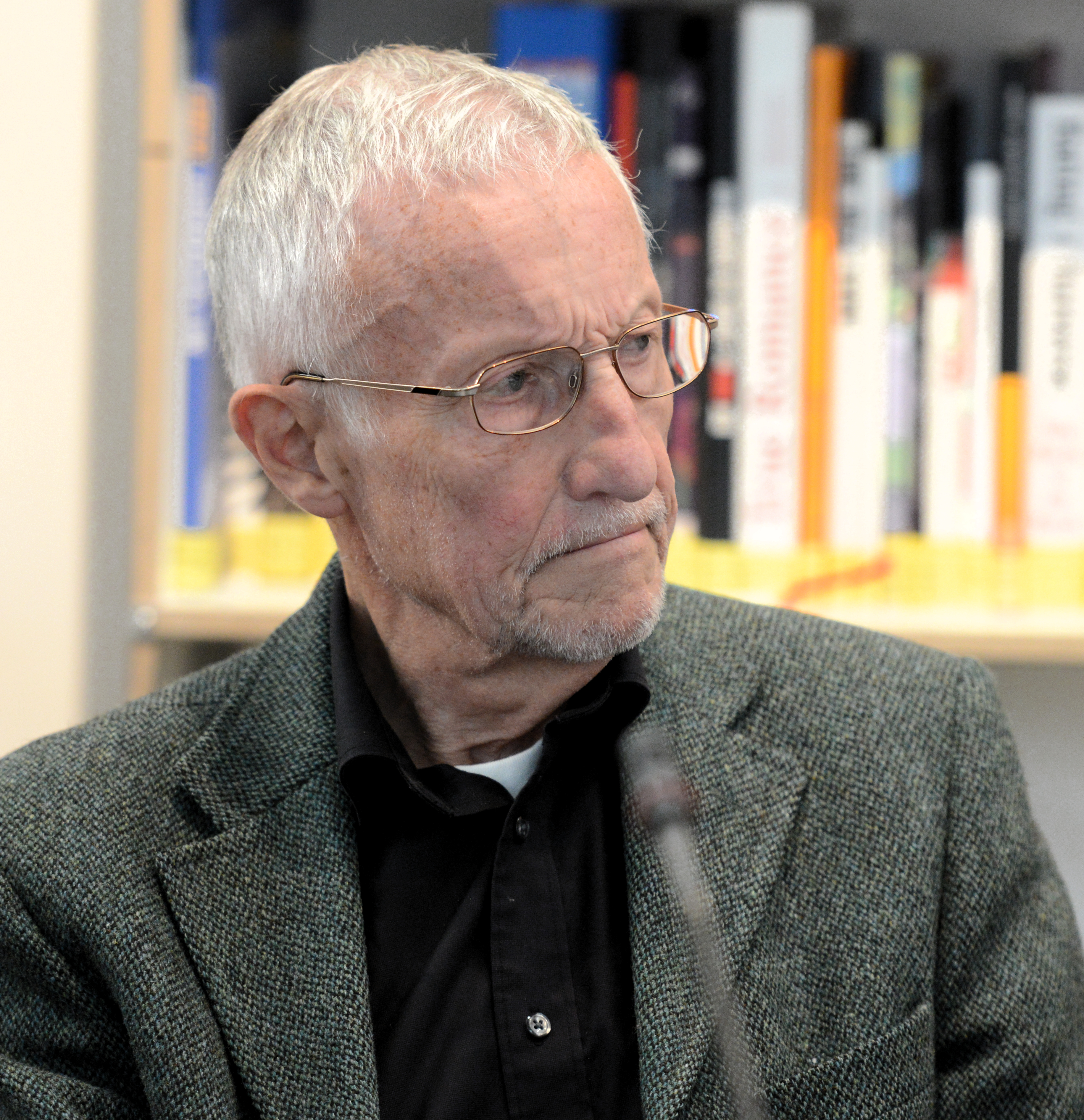 Institut d'études européennes et internationales du Luxembourg, Conference on The Politics of Virtue: the crisis of liberalism and the post-liberal future. A book manuscript by John Milbank and Adrian Pabst, Luxembourg, 17 and 18 October 2014. Guy Kirsch, Professor emeritus at the Department of Economics, University of Fribourg, Switzerland.